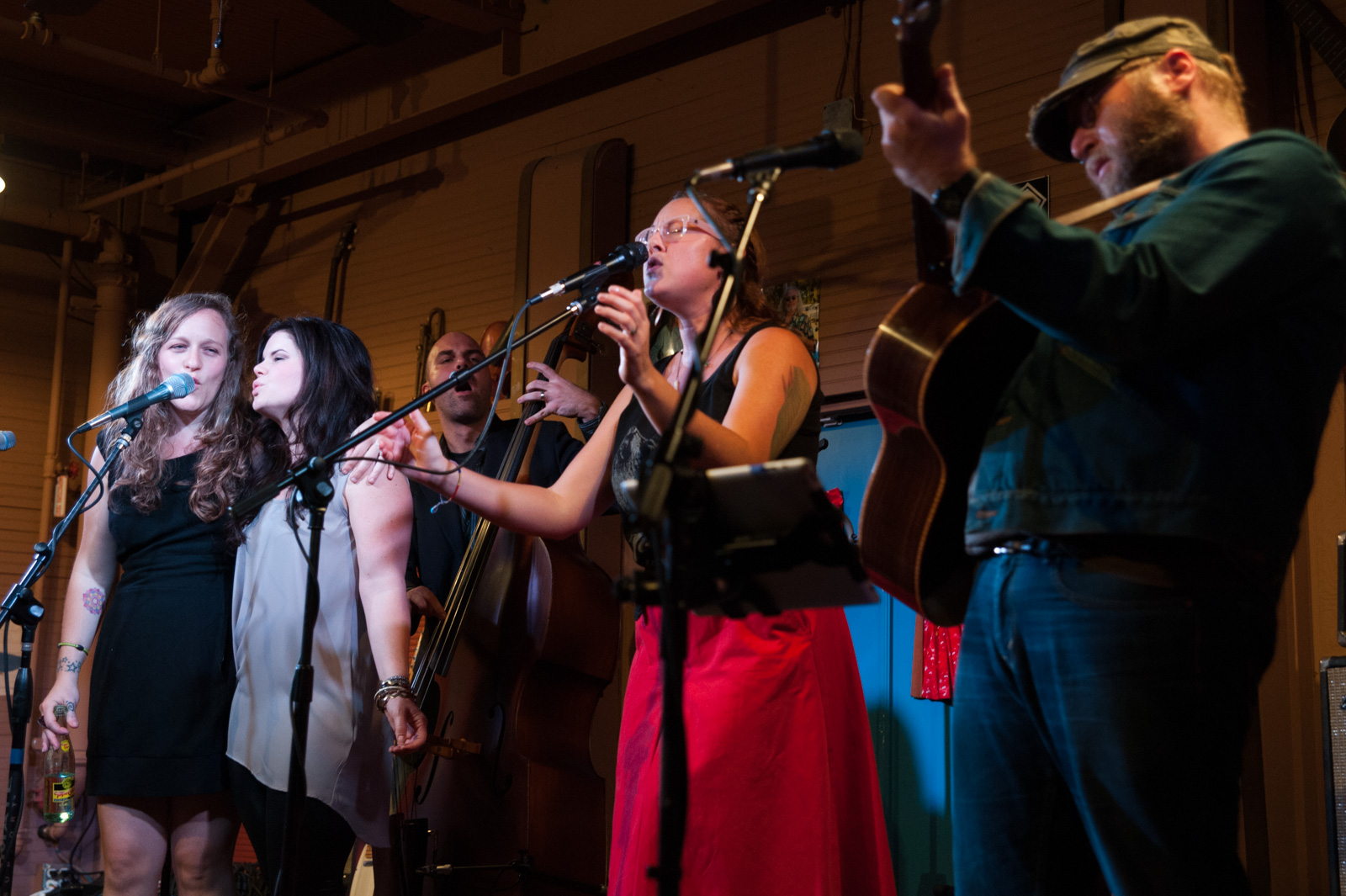 Raina Rose, Rebecca Loebe, and Smokey and the Mirror at The Blue Door listening room in Oklahoma City, 2013. Photo by Vicki Farmer.